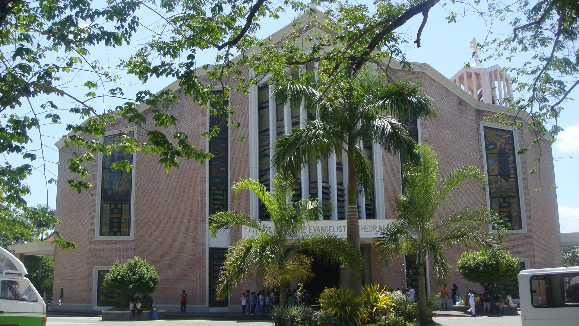 St. John the Evangelist Metropolitan Cathedral (Zamora st., Dagupan City, Pangasinan)